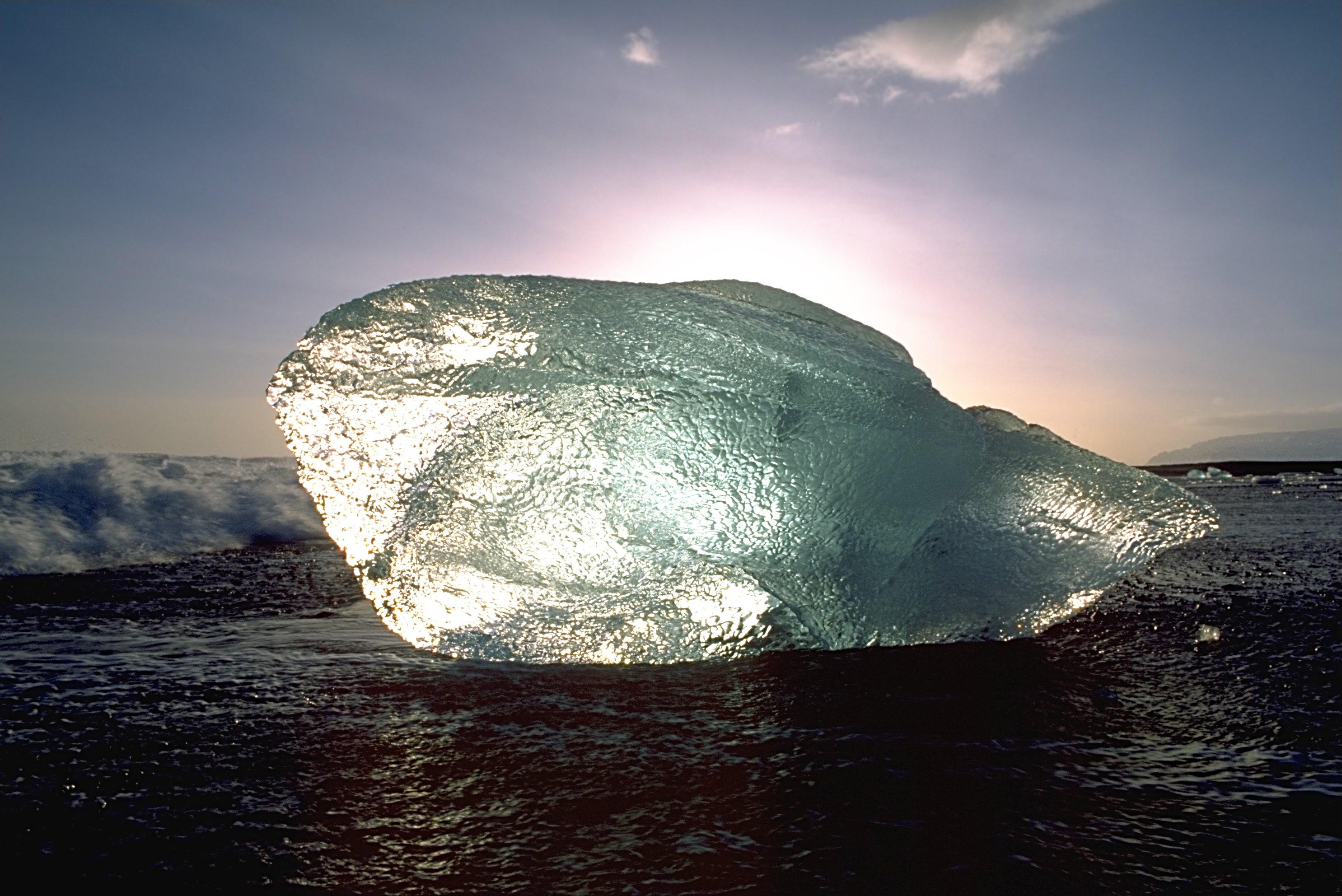 Ice block at beach near Jökulsárlón, Iceland. See the URL below how the image was shot ...